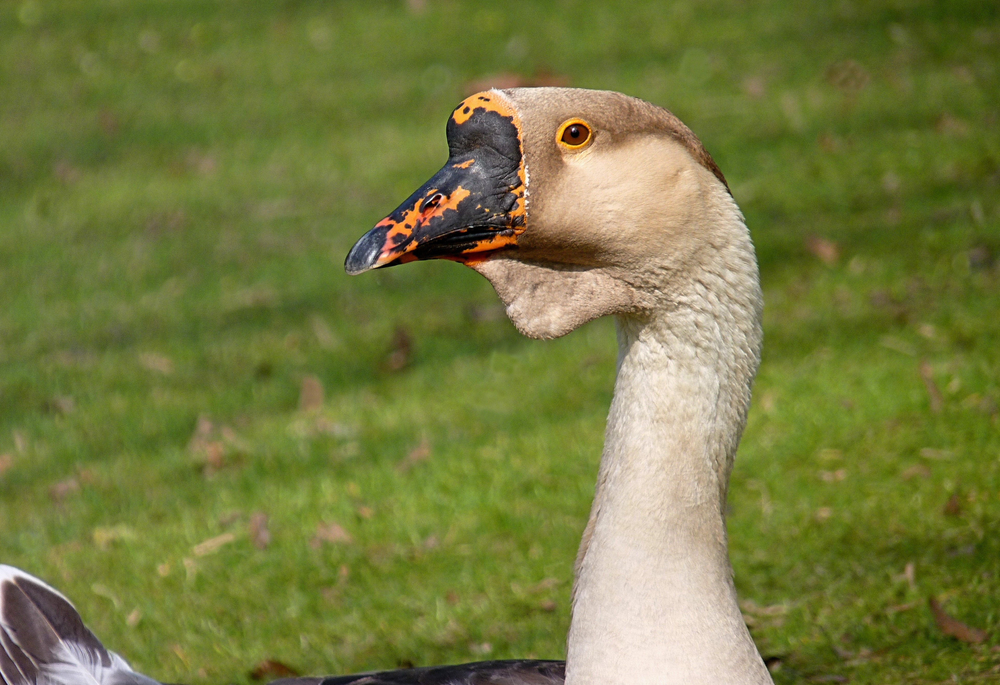 Domesticated goose, in the municipal park of Mouscron (Belgium).